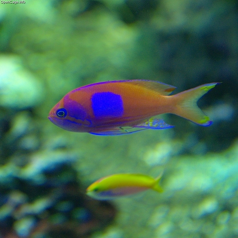 スミレナガハナダイ Squarespot anthias Species Pseudanthias pleurotaenia Familia Serranidae Location ENOSHIMA AQUARIUM, Japan Copyright OpenCage